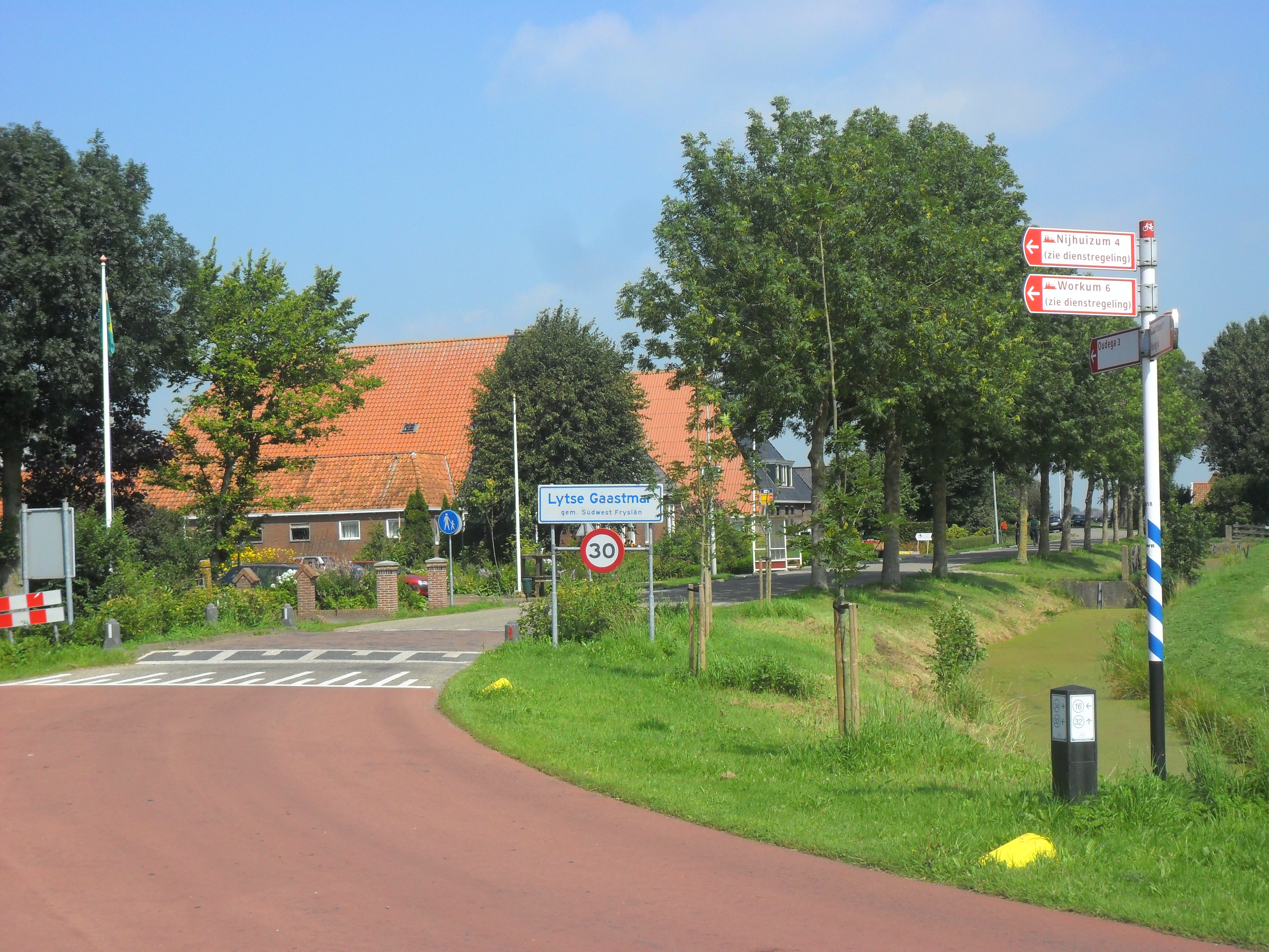 Road in Lyts Gaastmar, SWF